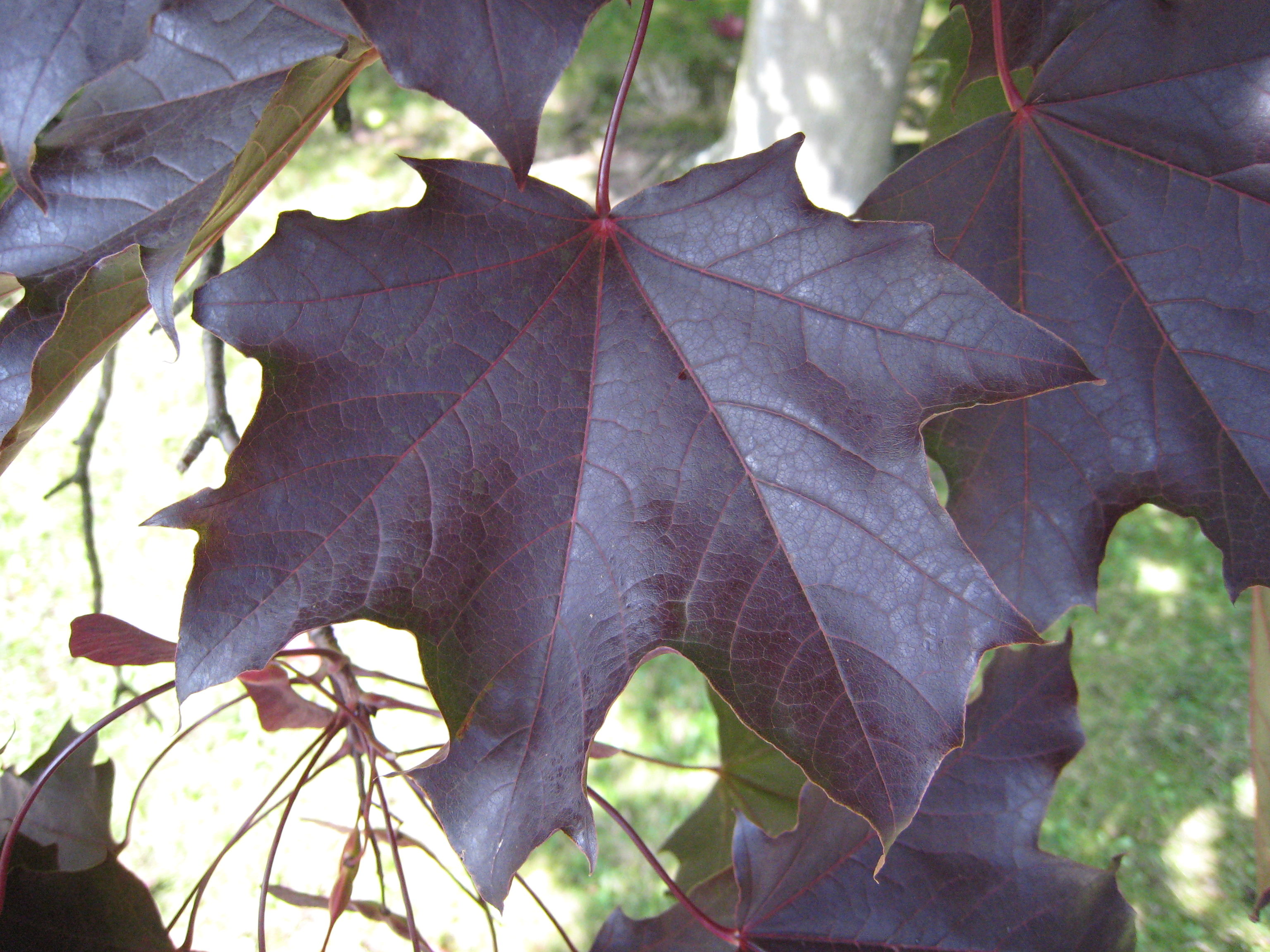 Acer platanoides 'Schwedleri' leaf in the Arboretum de Chèvreloup in Rocquencourt